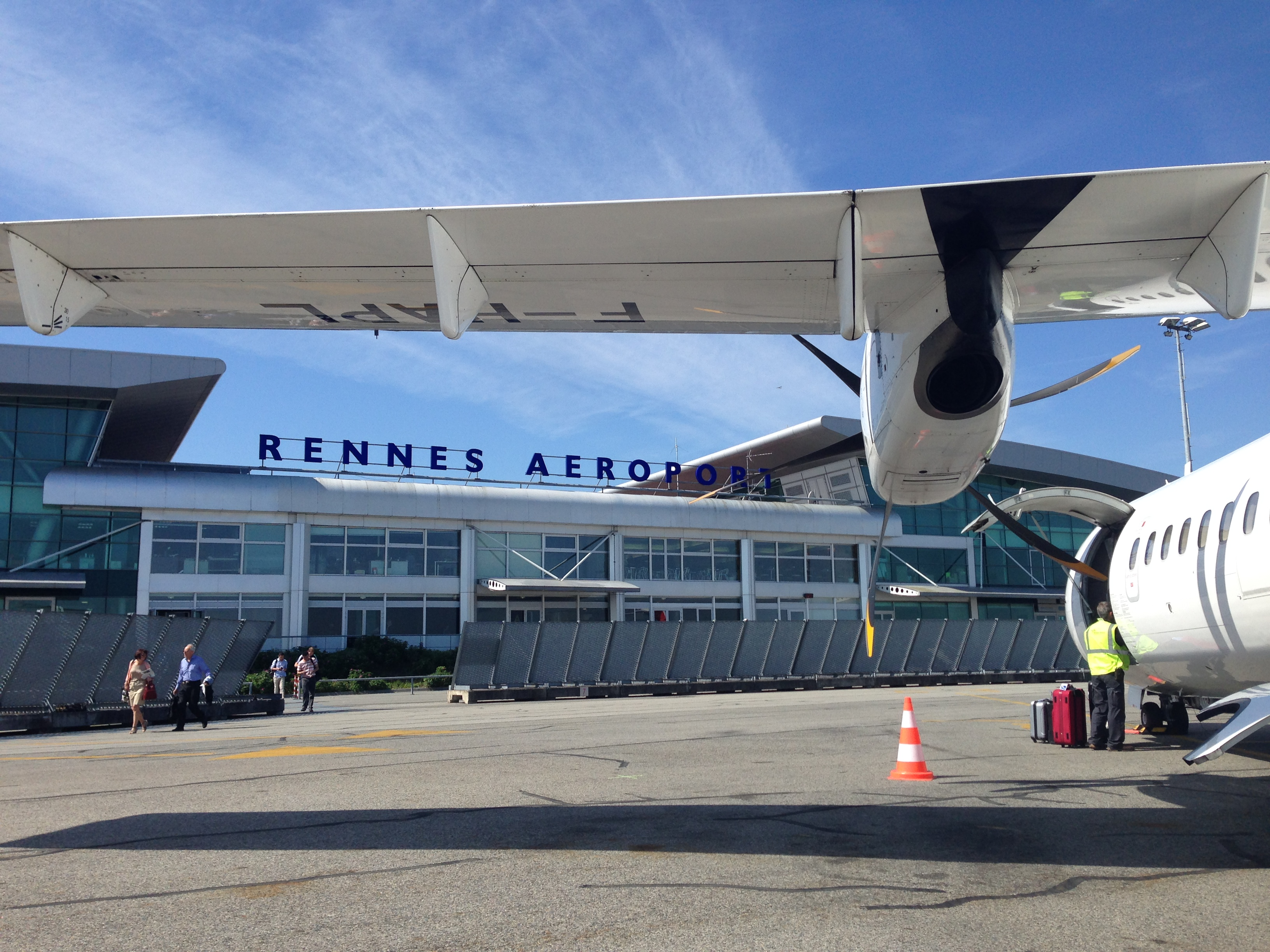 Airport Rennes